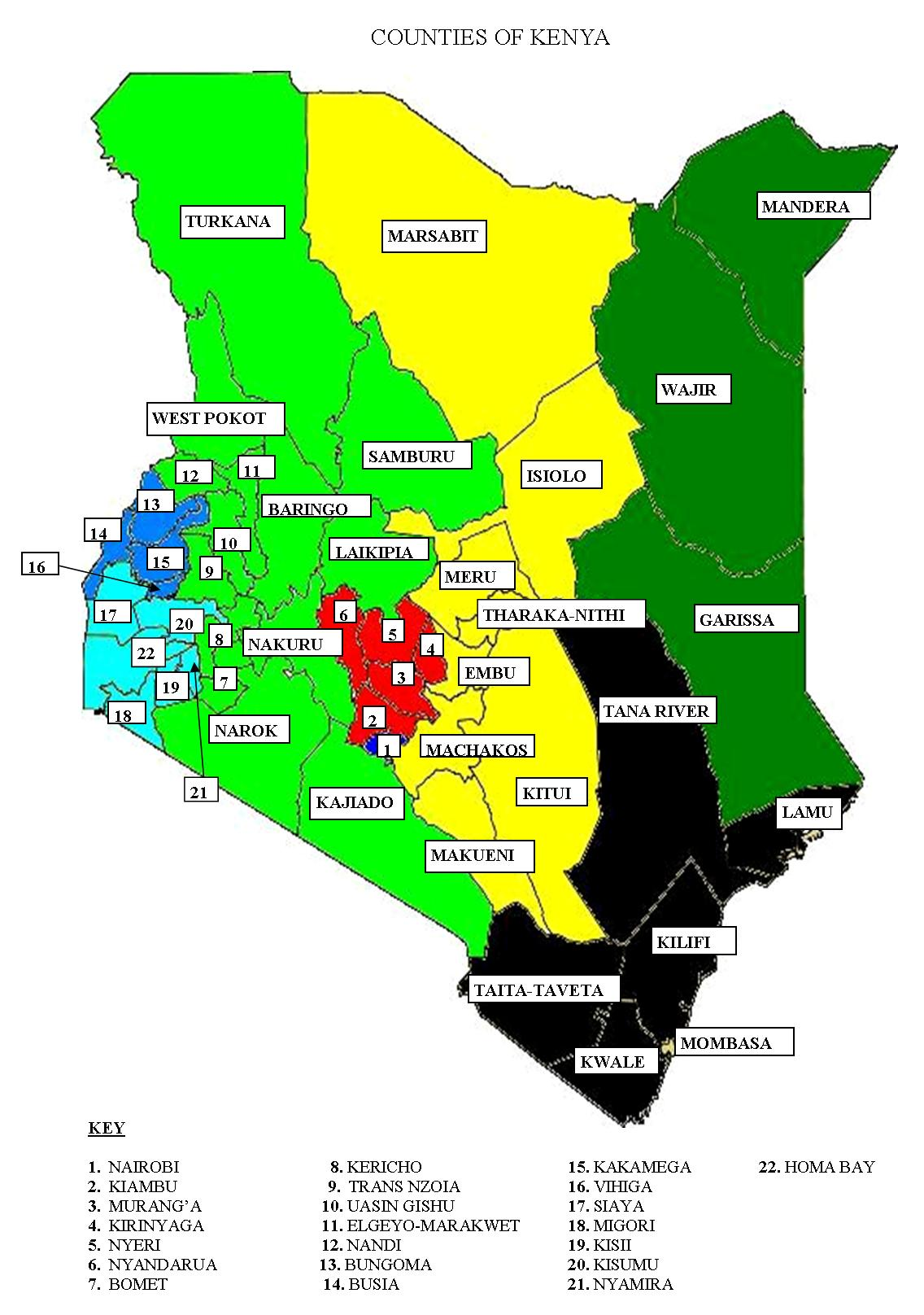 A map of the counties of Kenya as envisioned in the Constitution of 2010. Provinces shown by colors. I hope the labeling is accurate :)